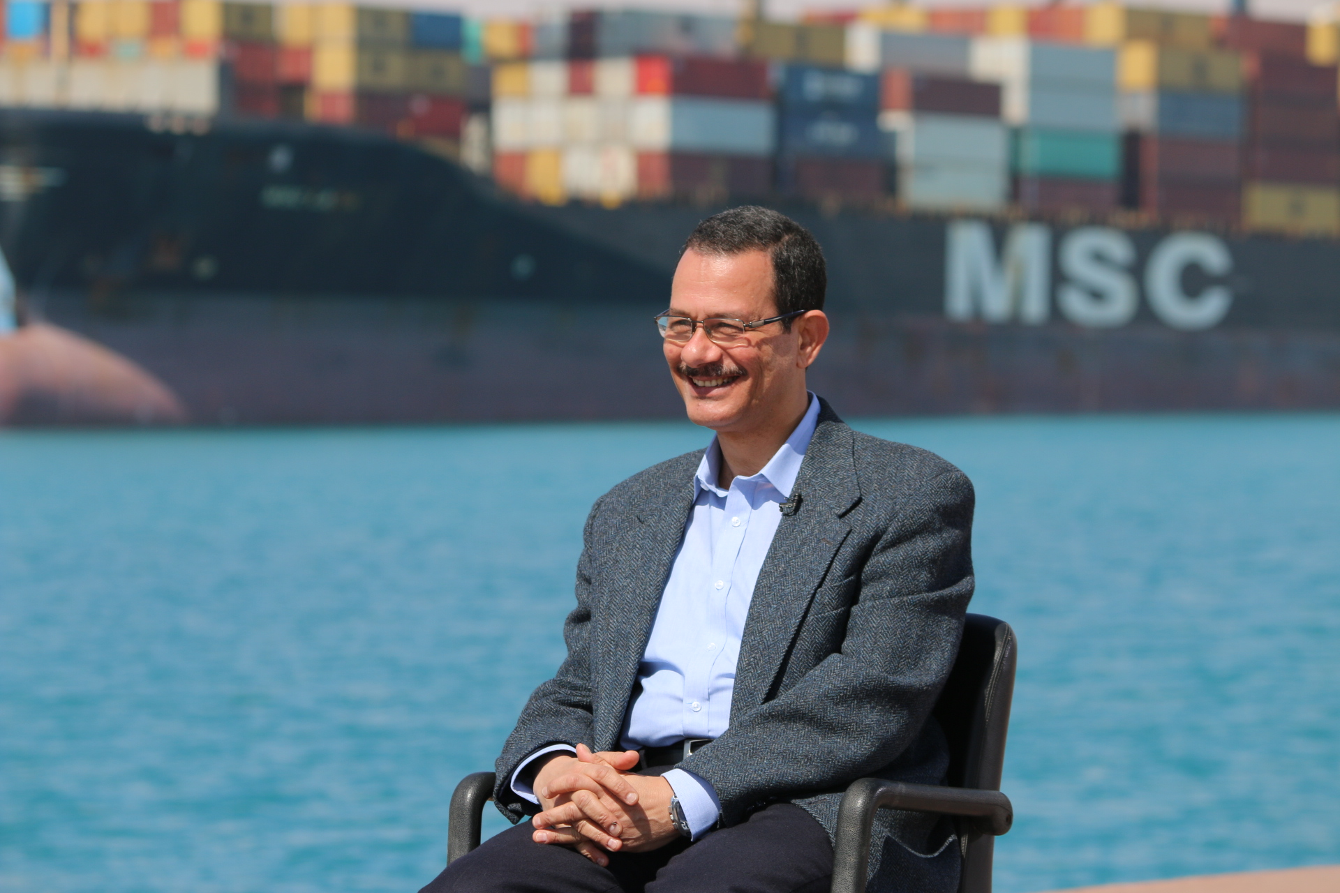 Ahmed Darwish, the chairman of the Suez Canal Economic Zone sitting in front of the Suez Canal, Egypt